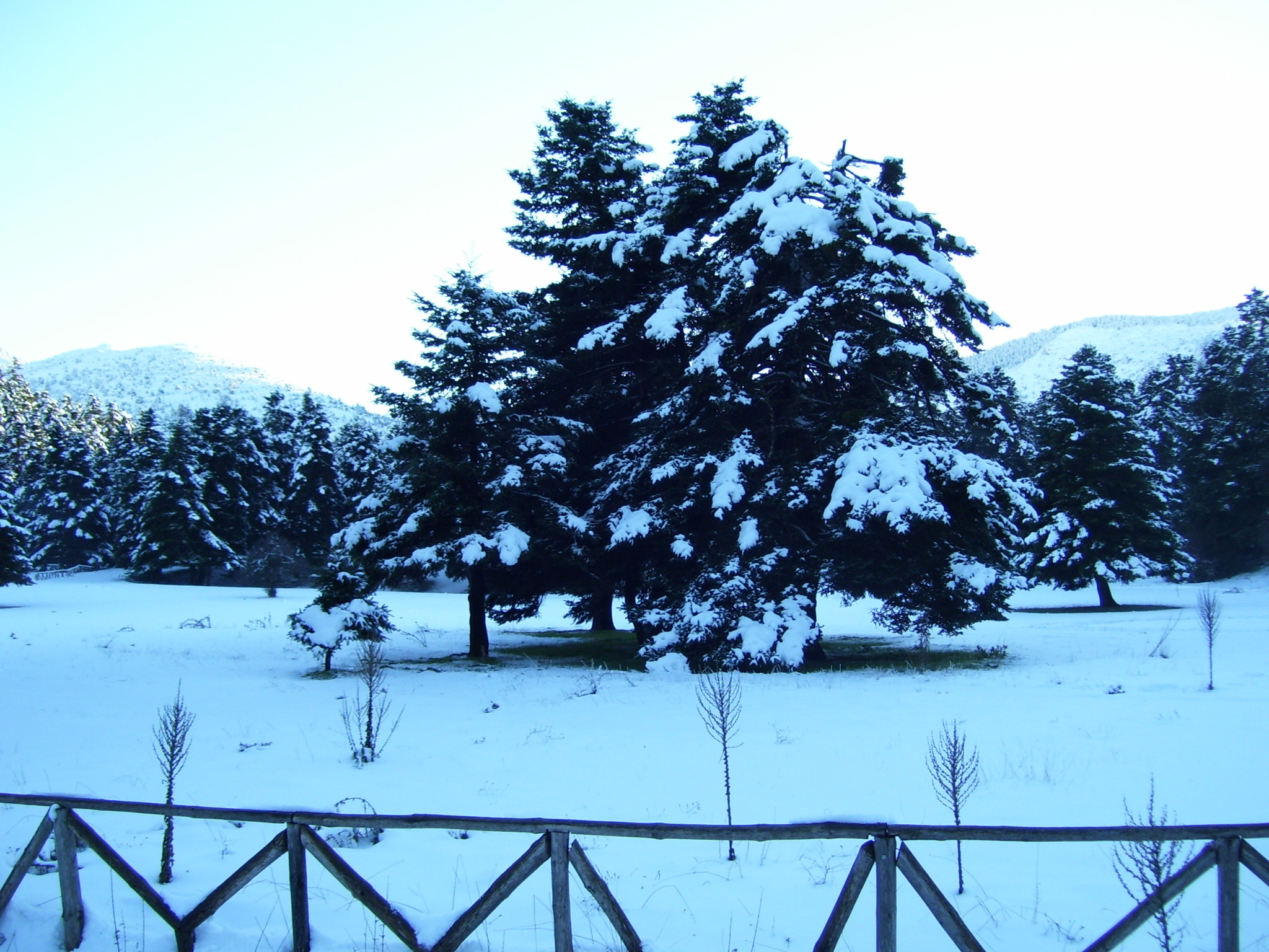 Arvanitsa park, near Agia Anna village, Boeotia